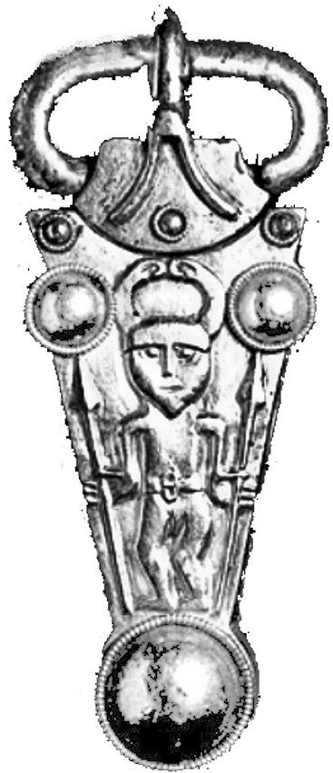 Enhanced grayscale image of seventh-century "shield on tongue" buckle, described in S.C. Hawkes, H.R.E. Davidson, C. Hawkes, 1965 "The Finglesham man," Antiquity 39:17-32.